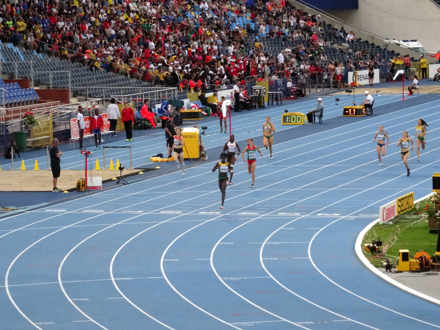 2016 IAAF World U20 Championships in Bydgoszcz, 400m women semi-final